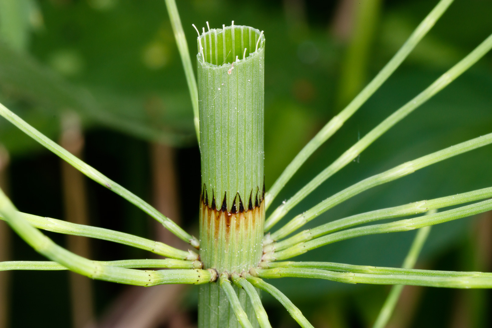 The water horsetail Equisetum fluviatile - the central hollow. Zakole Wawerskie, Wawer, Warsaw, Poland.